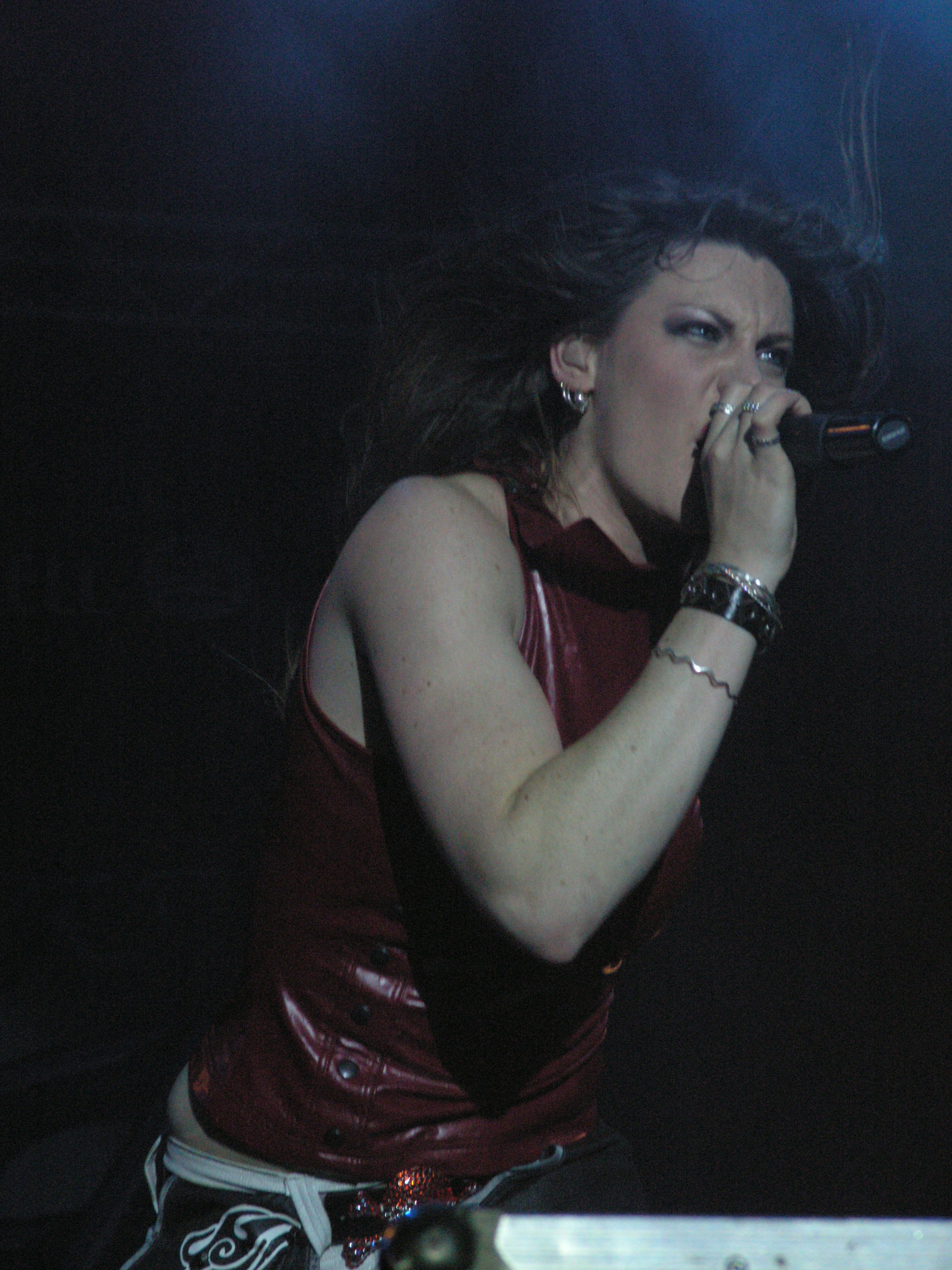 Floor Jansen from After Forever during Masters of Rock 2007 festival